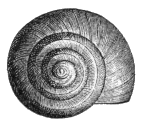 Drawing of the apical view of the shell of Valvata utahensis